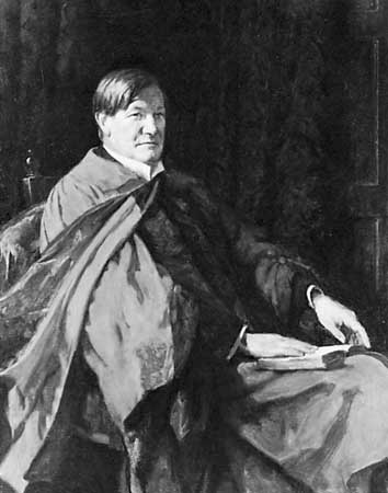 Portrait of Sir John Morris-Jones